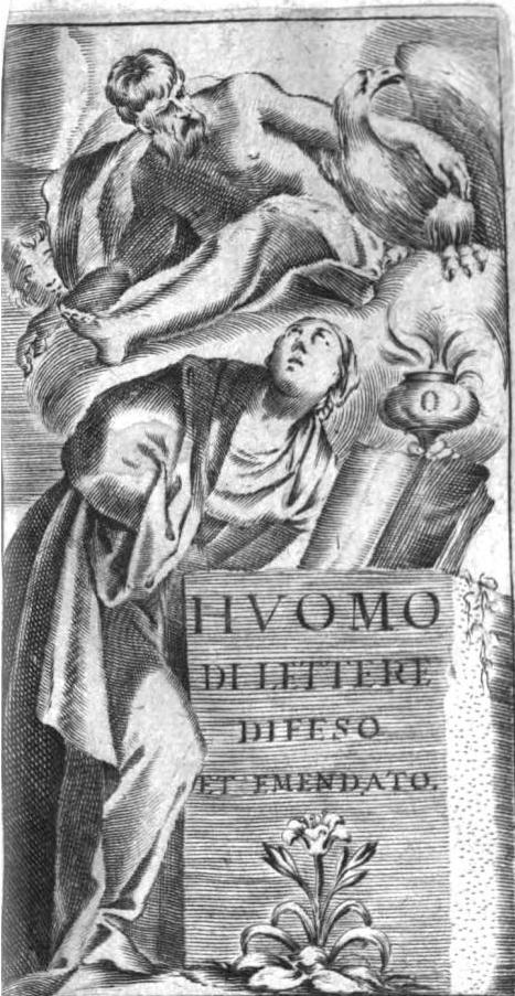 Title frontispiece